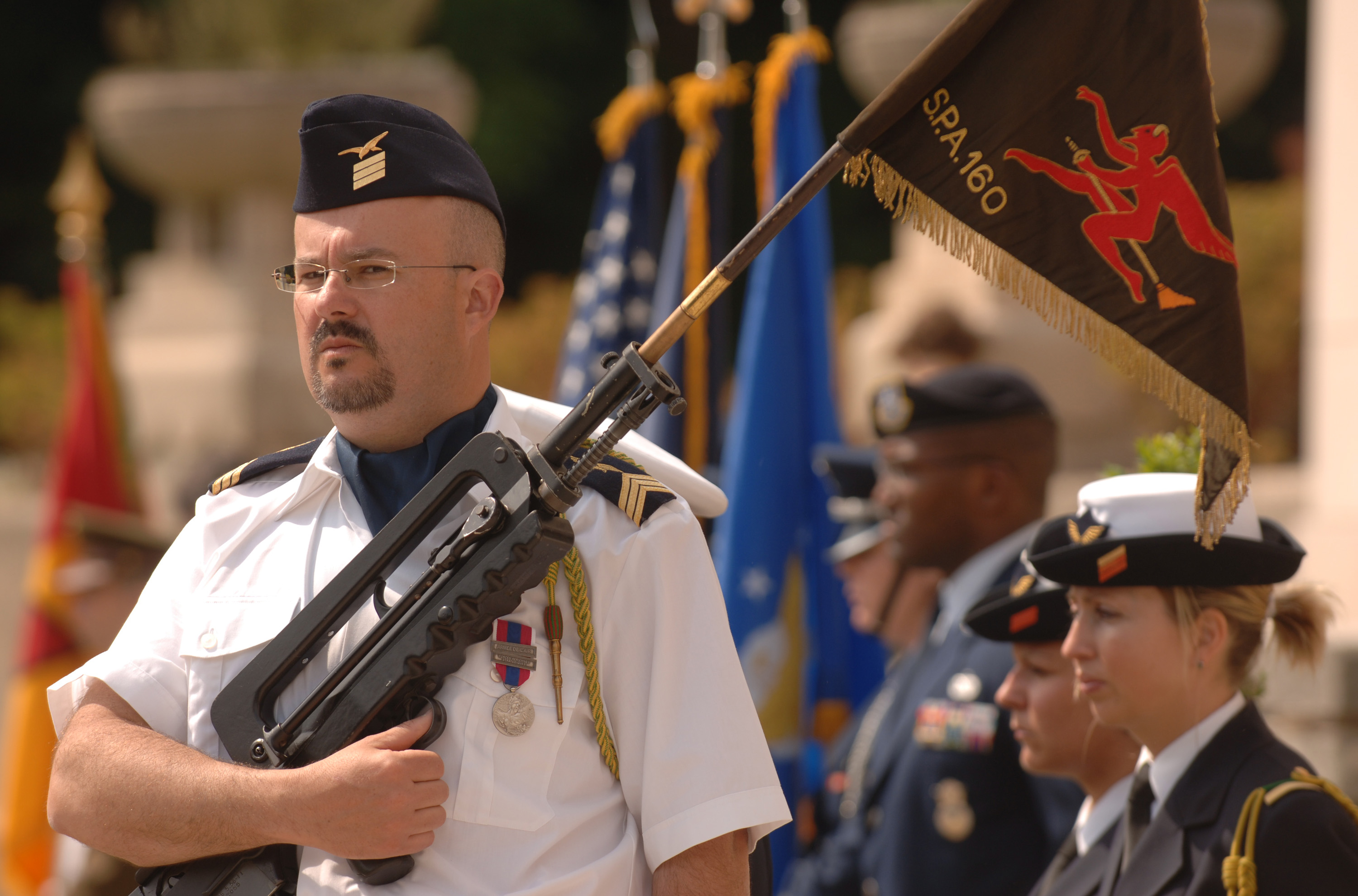 Ludovic Quenin, a French air force non-commissioned officer, takes part in the Lafayette Escadrille memorial ceremony outside of Paris 24 May 2008, where French and American citizens paid homage to an all-American squadron of volunteer pilots who flew under the French flag during World War I, and many gave their lives in defense of French democracy.